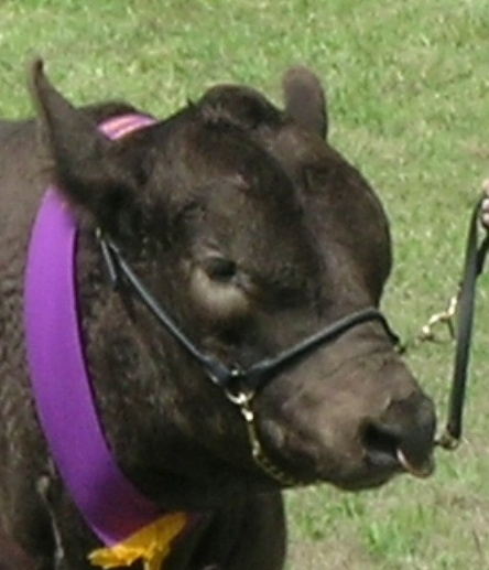 A show halter and nose ring on a Murray Grey bull